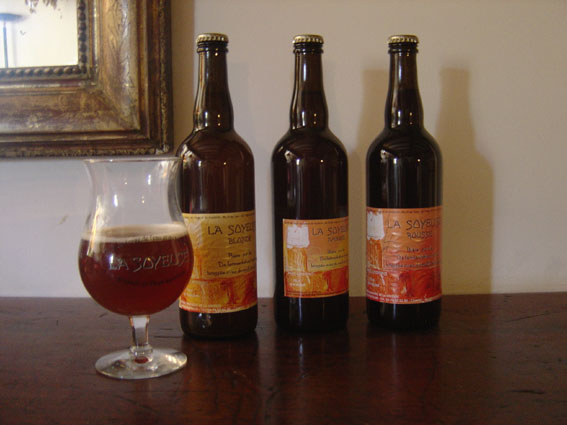 La Soyeuse Ales (pale, mild, red) (Farm & micro-brewery - Lyon - France)